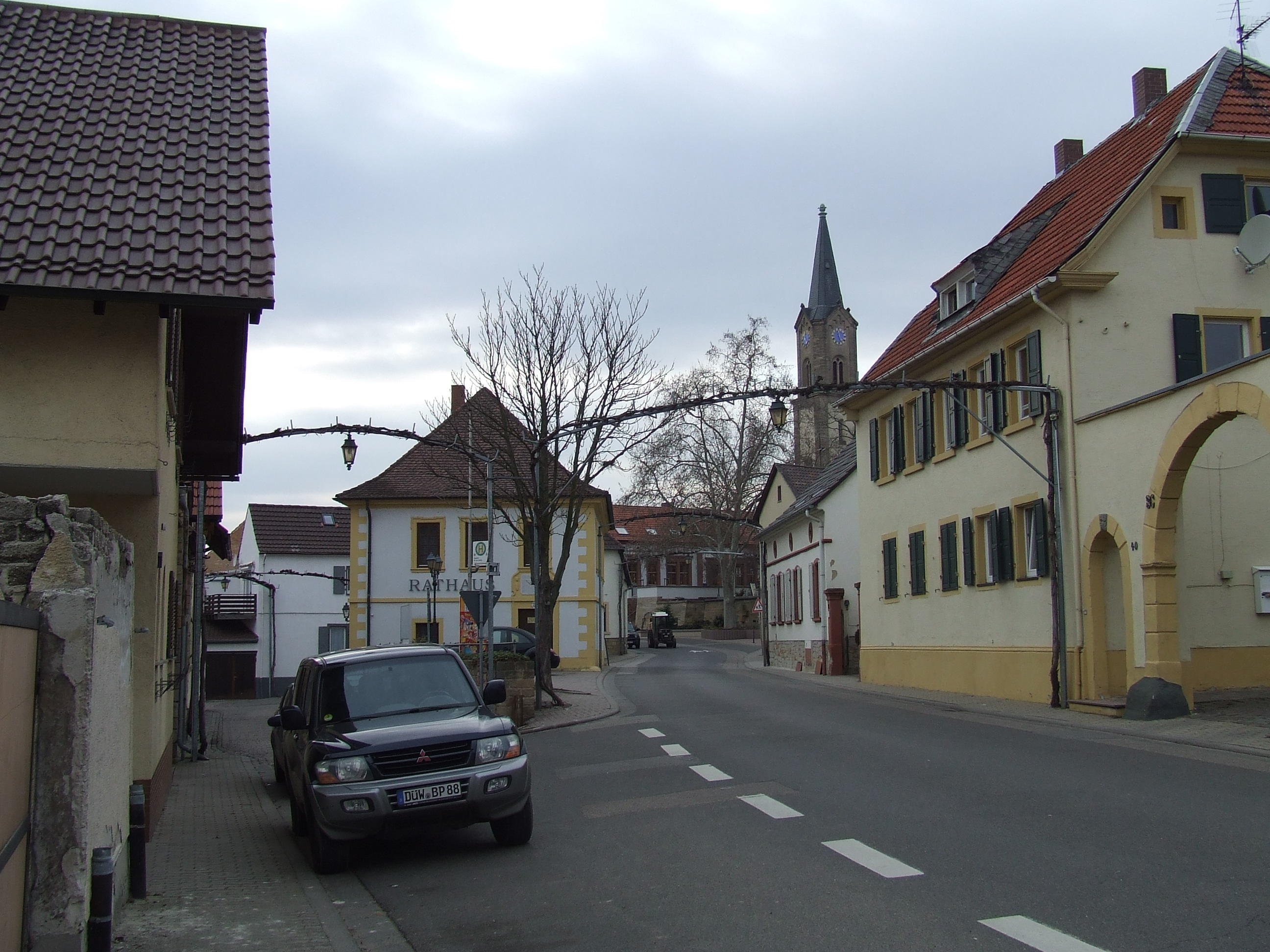 Erpolzheim